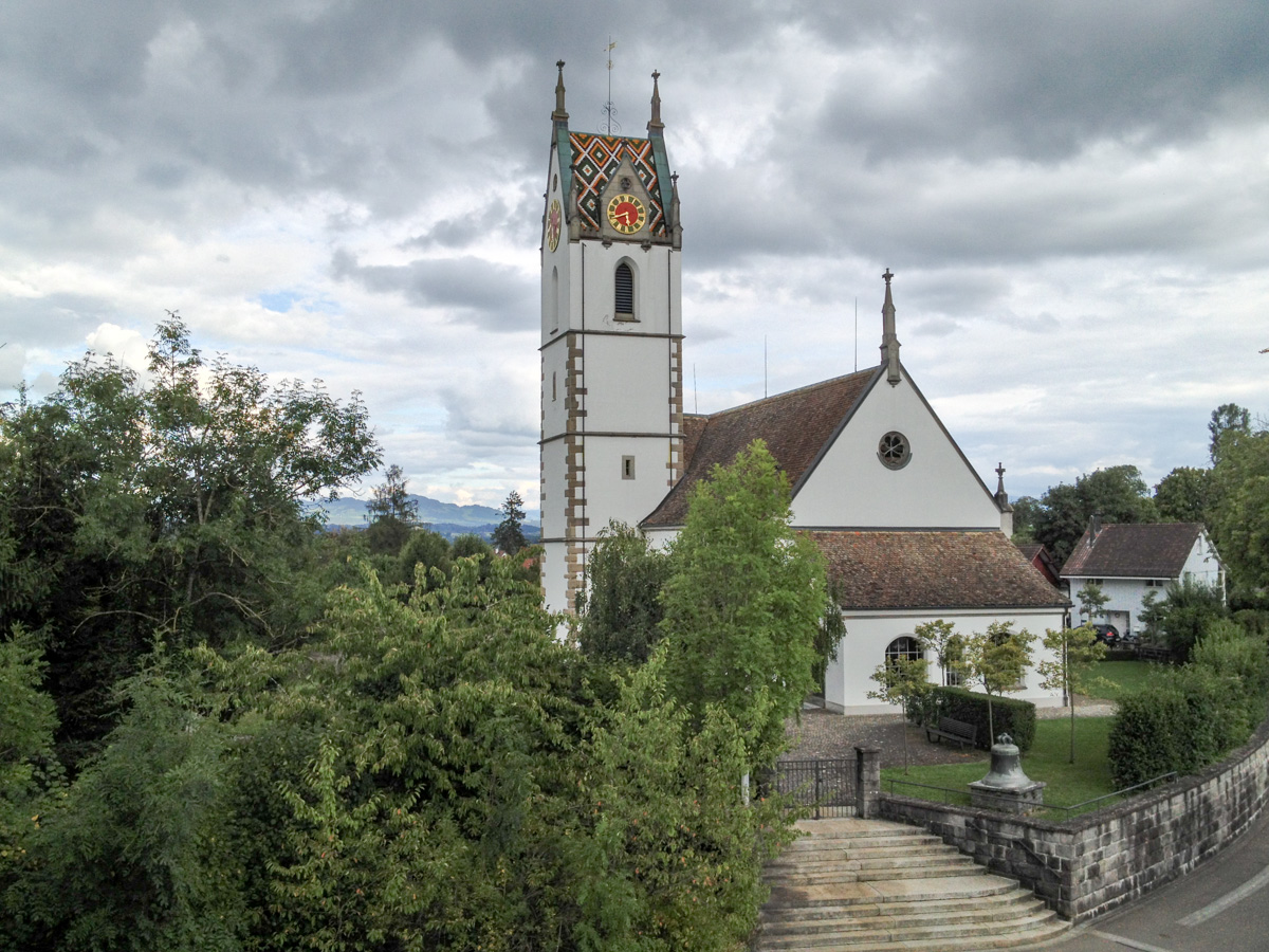 Protestant Church in Maur, Kanton of Zurich, Switzerland